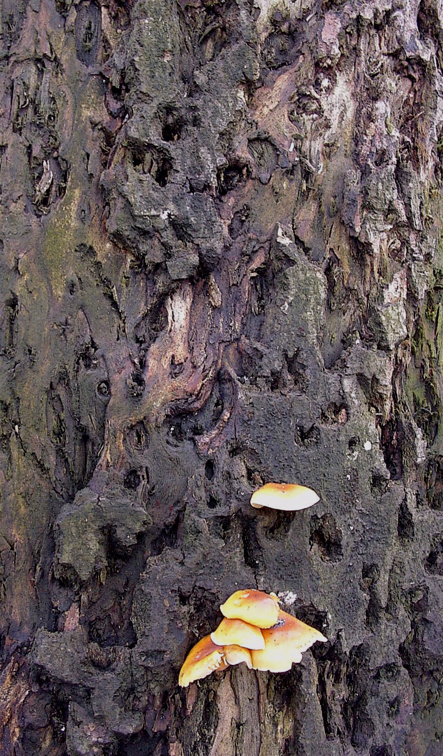 Decaying tree (Lomme, in the north of France)